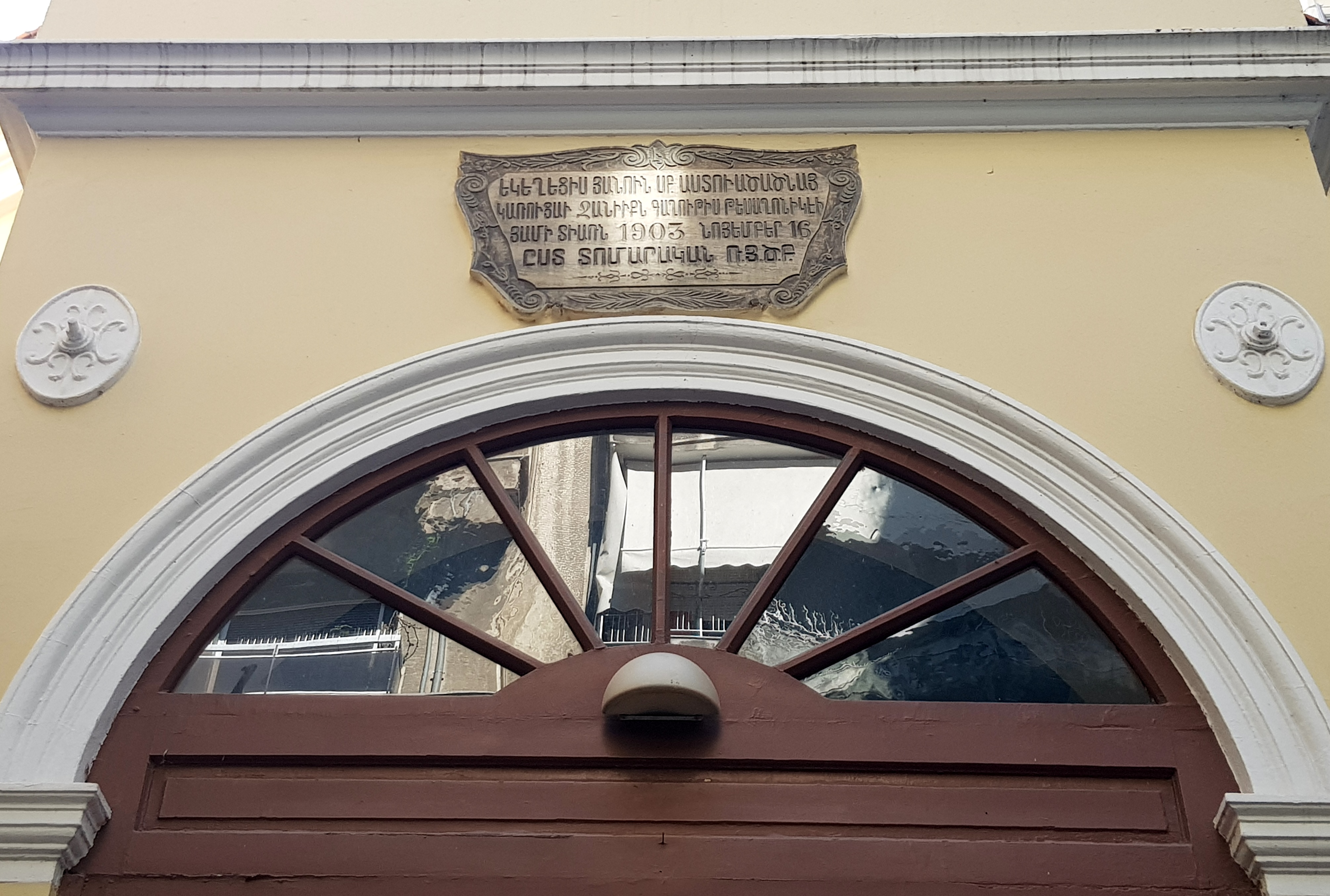 Armenian inscription above the door of Armenian Church of Thessaloniki Built in 1903, architect Vitaliano Poselli (1838-1918)